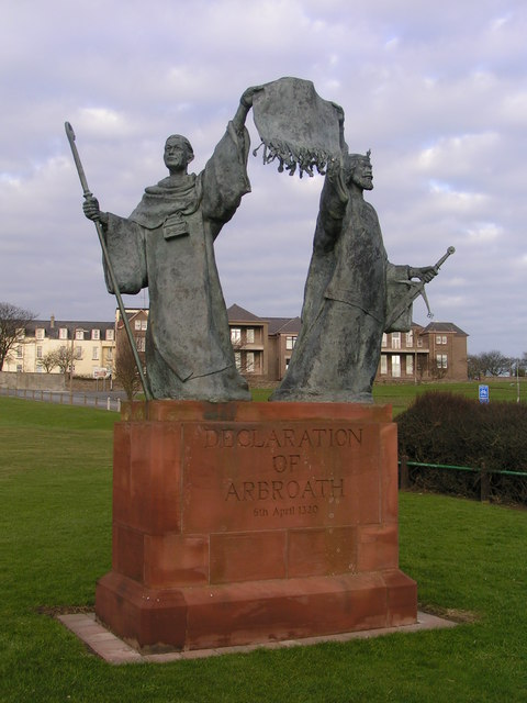 Statue of Bernard de Linton (then Abbot of Arbroath) and Robert the Bruce holding the Declaration of Arbroath aloft. The building seen in the background is the Arbroath Infirmary. Sculptor: David Annand. (Original caption: "1320 and all that.....")